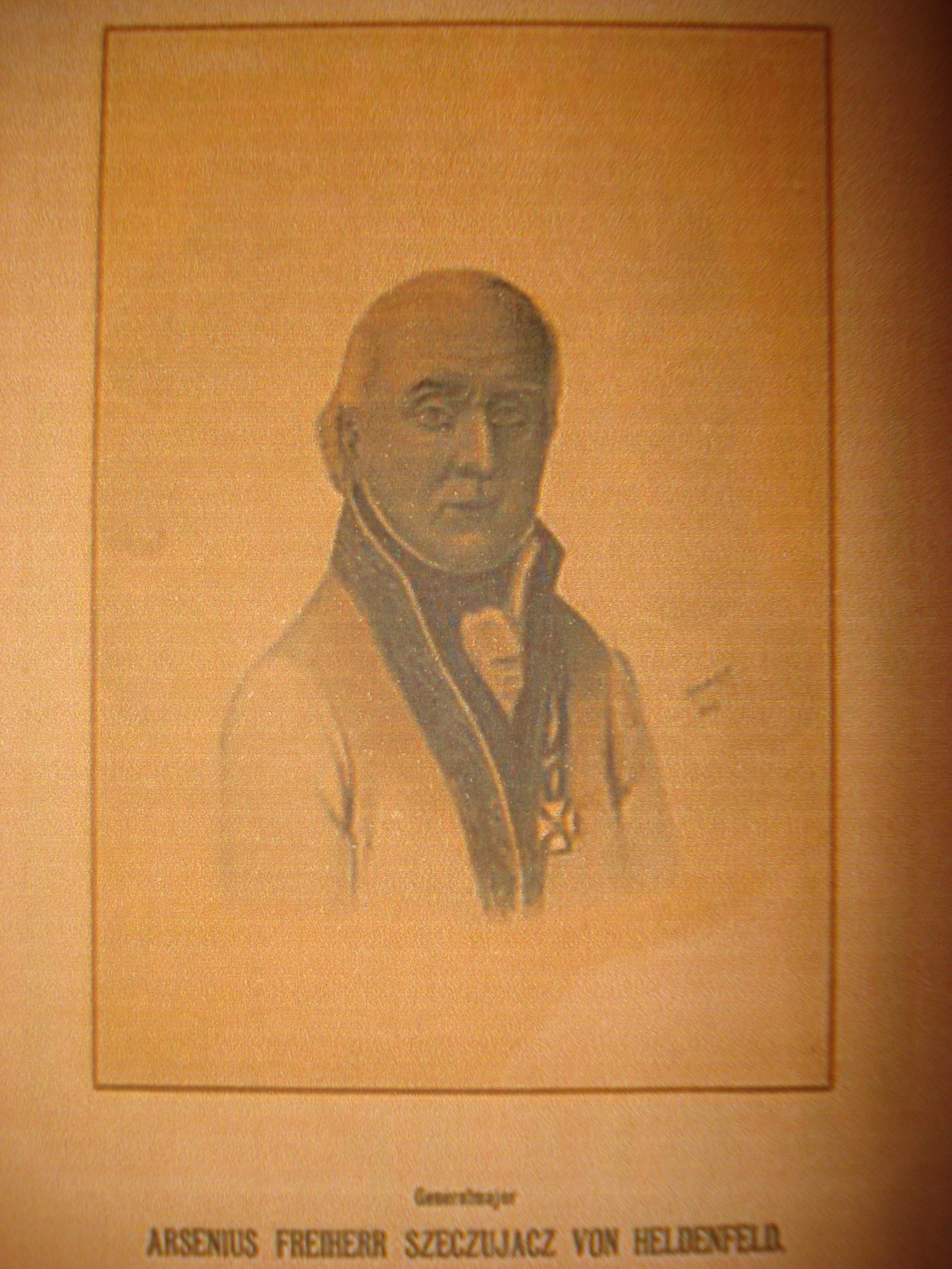 Baron Arsen Sečujac Heldenfeldski /Arsenius Sechuyats of Heldenfeld/ (1720-1814), Croatian nobleman and general of the Habsburg Monarchy imperial armyHrvatski: Arsen barun Sečujac Heldenfeldski (1720-1814), hrvatski plemić i general carske vojske Habsburške Monarhije